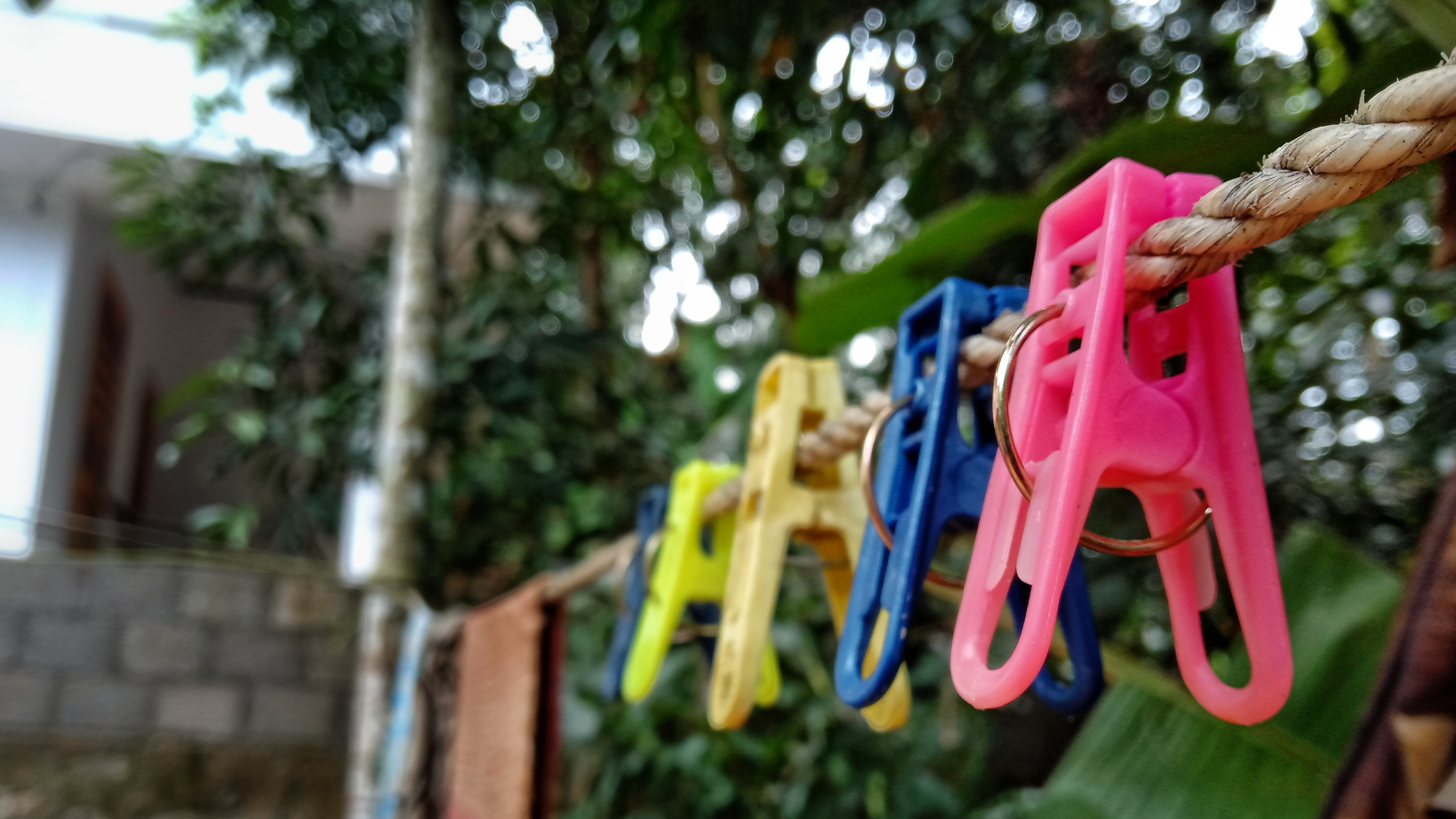 ക്ലിപ്പ്